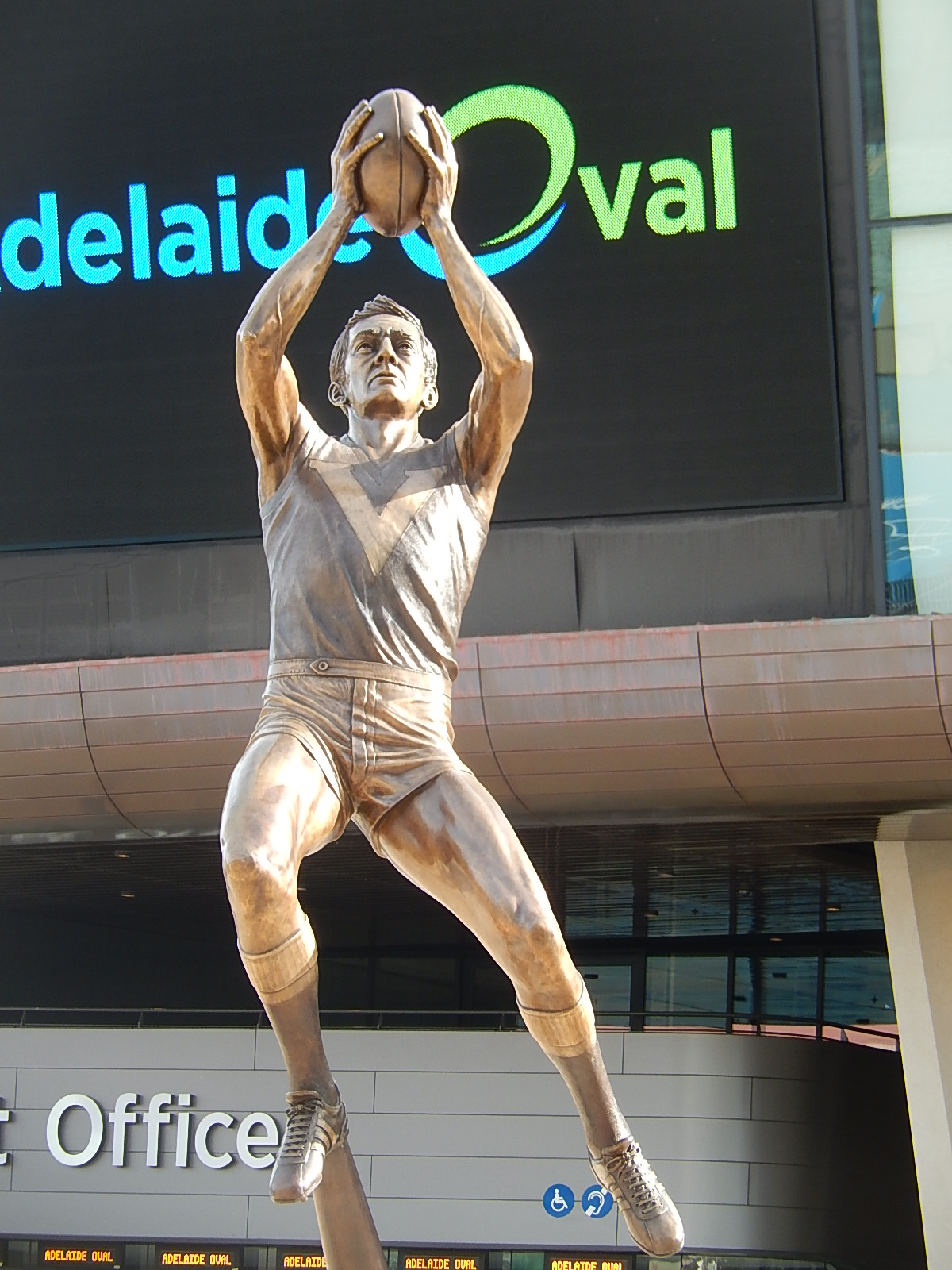 Statue of Australian rules footballer Barrie Robran, Adelaide Oval